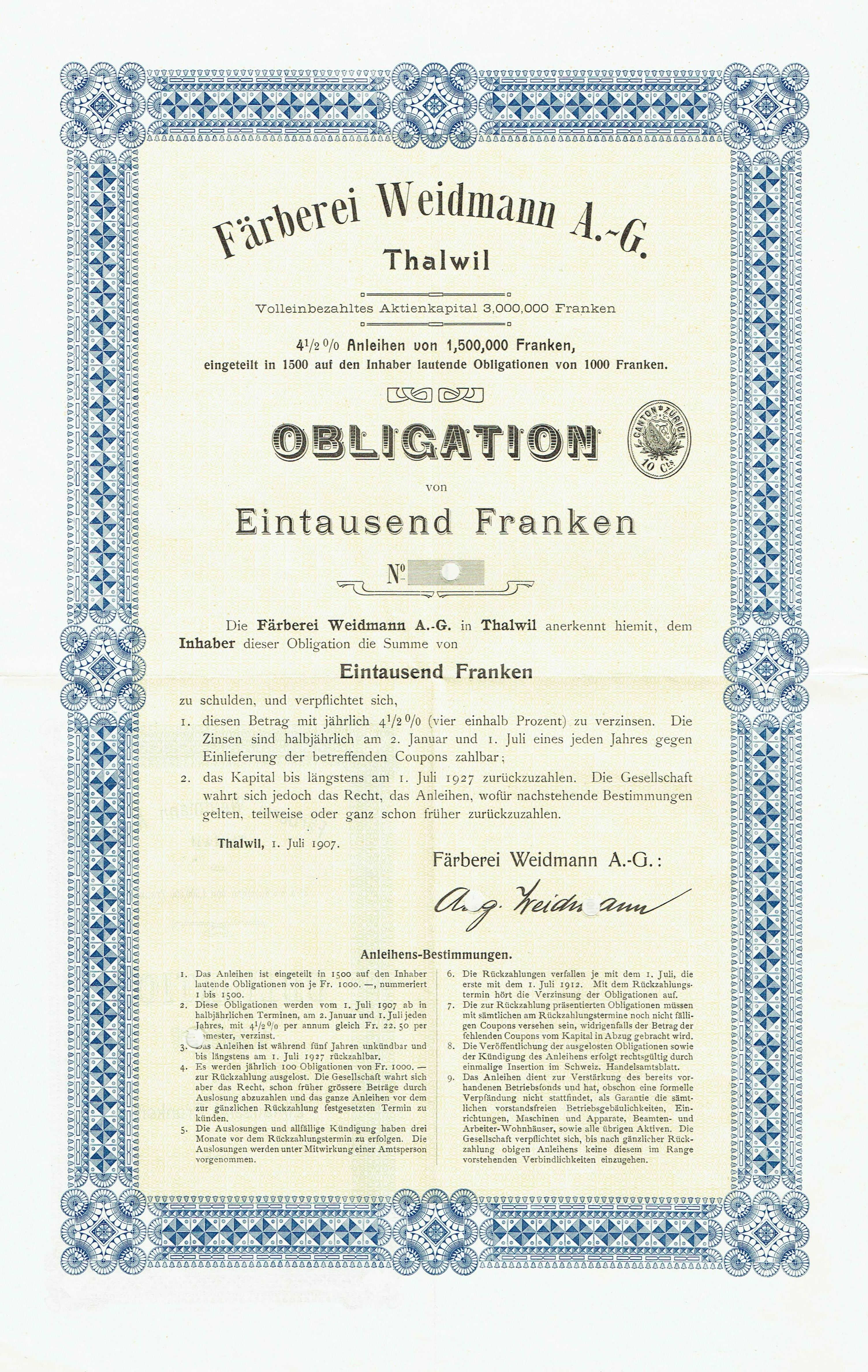 Bond of the Färberei Weidmann AG, issued 1. July 1907